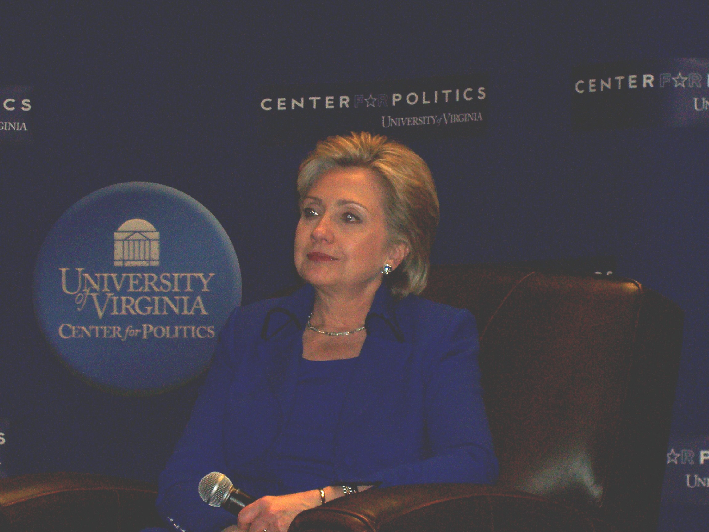 Senator Hillary Clinton speaks to Larry Sabato's American Politics 101 class at the University of Virginia. A more brighter version of "Hillary Clinton at UVA.jpg"